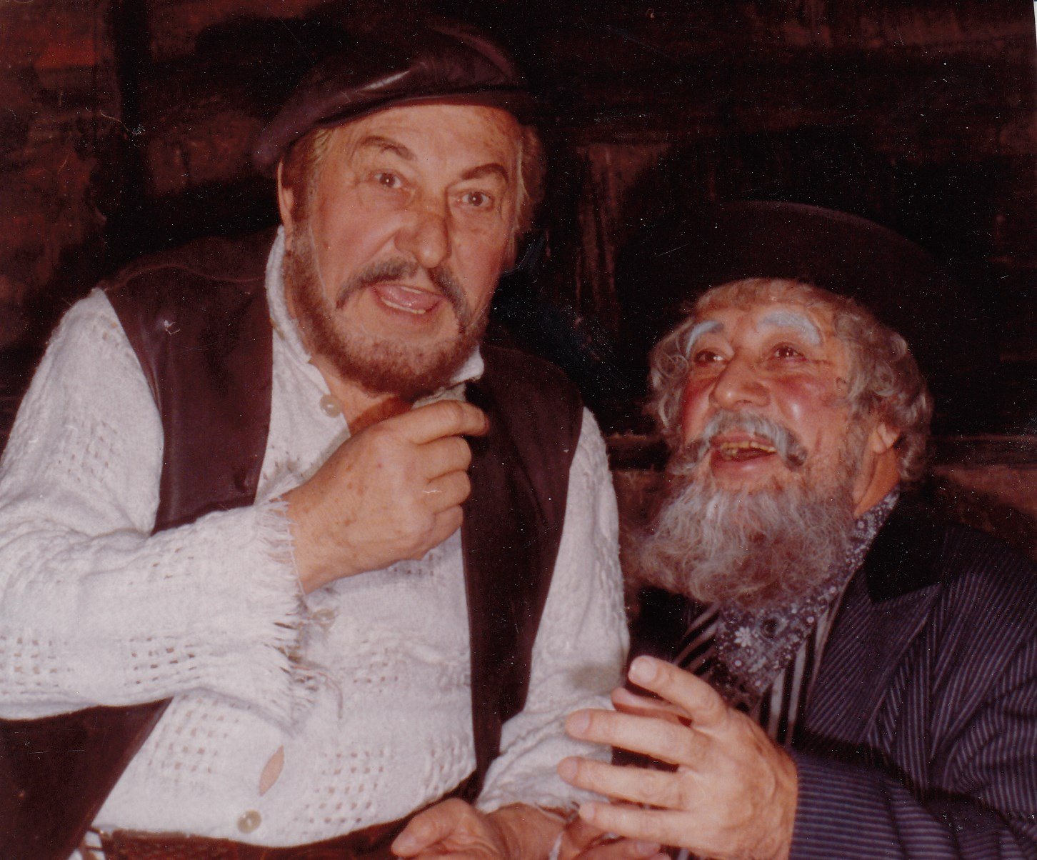 Mucsi Sándor és Bessenyei Ferenc a Hegedűs a háztetőn című darabban